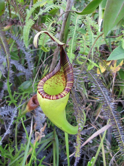 N.fusca (Kinabalu)